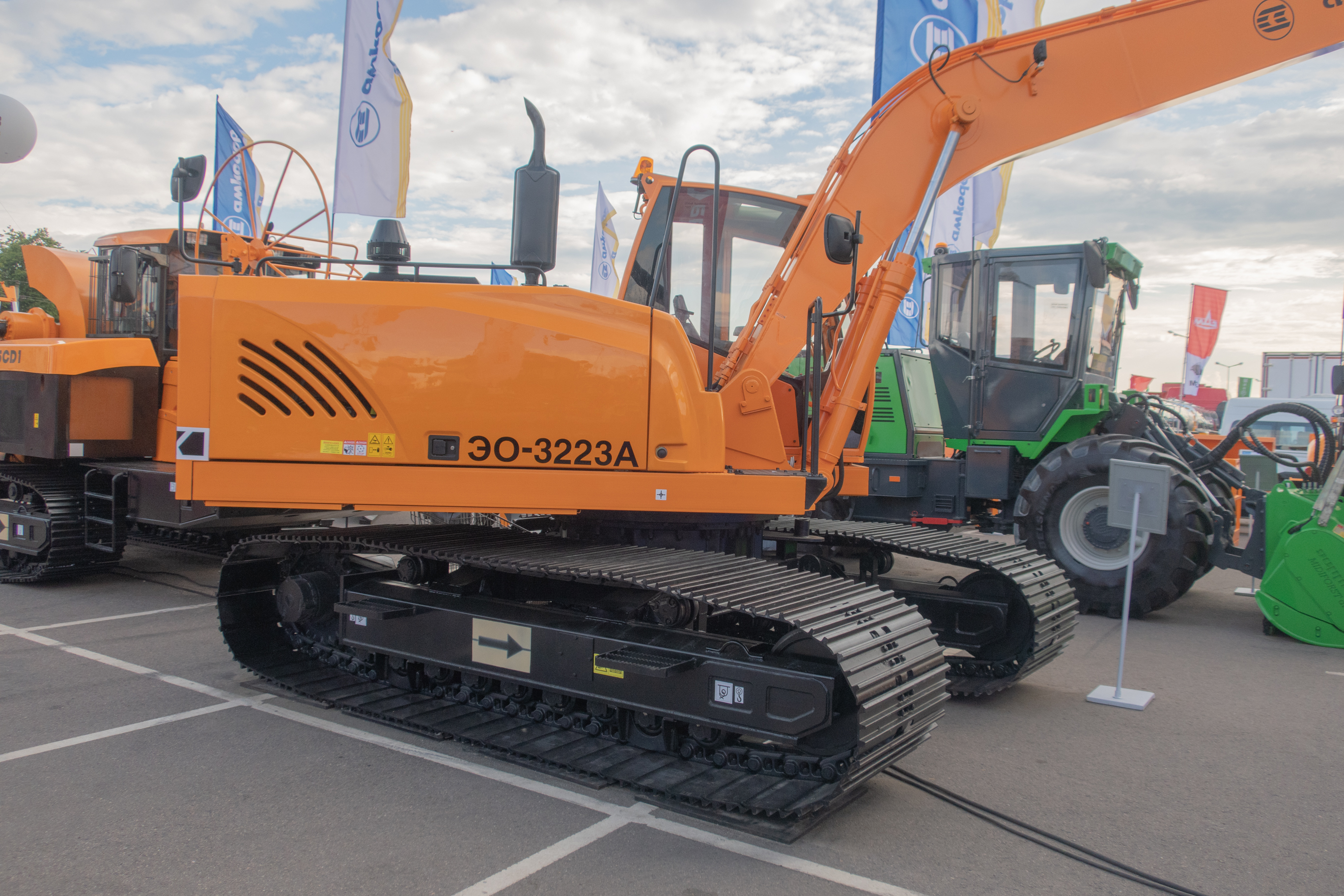 Amkodor vehicle. Photo taken at Belagro-2019 exhibition (Minsk district, Belarus)